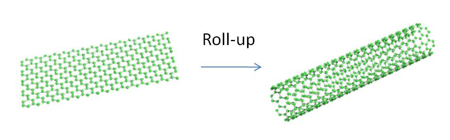 A schematic animations of a carbon nanotube that can be formed by rolling up a graphene